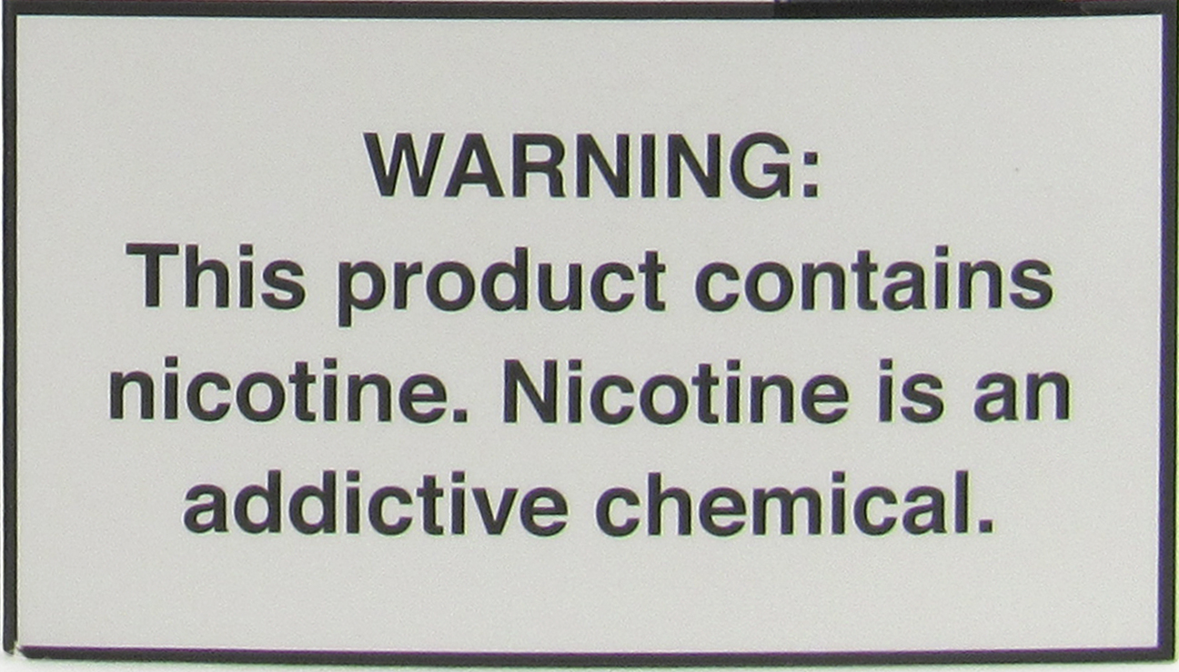 Warning statement on a Juul vaping device: "Warning: This product contains nicotine. Nicotine is an addictive chemical."